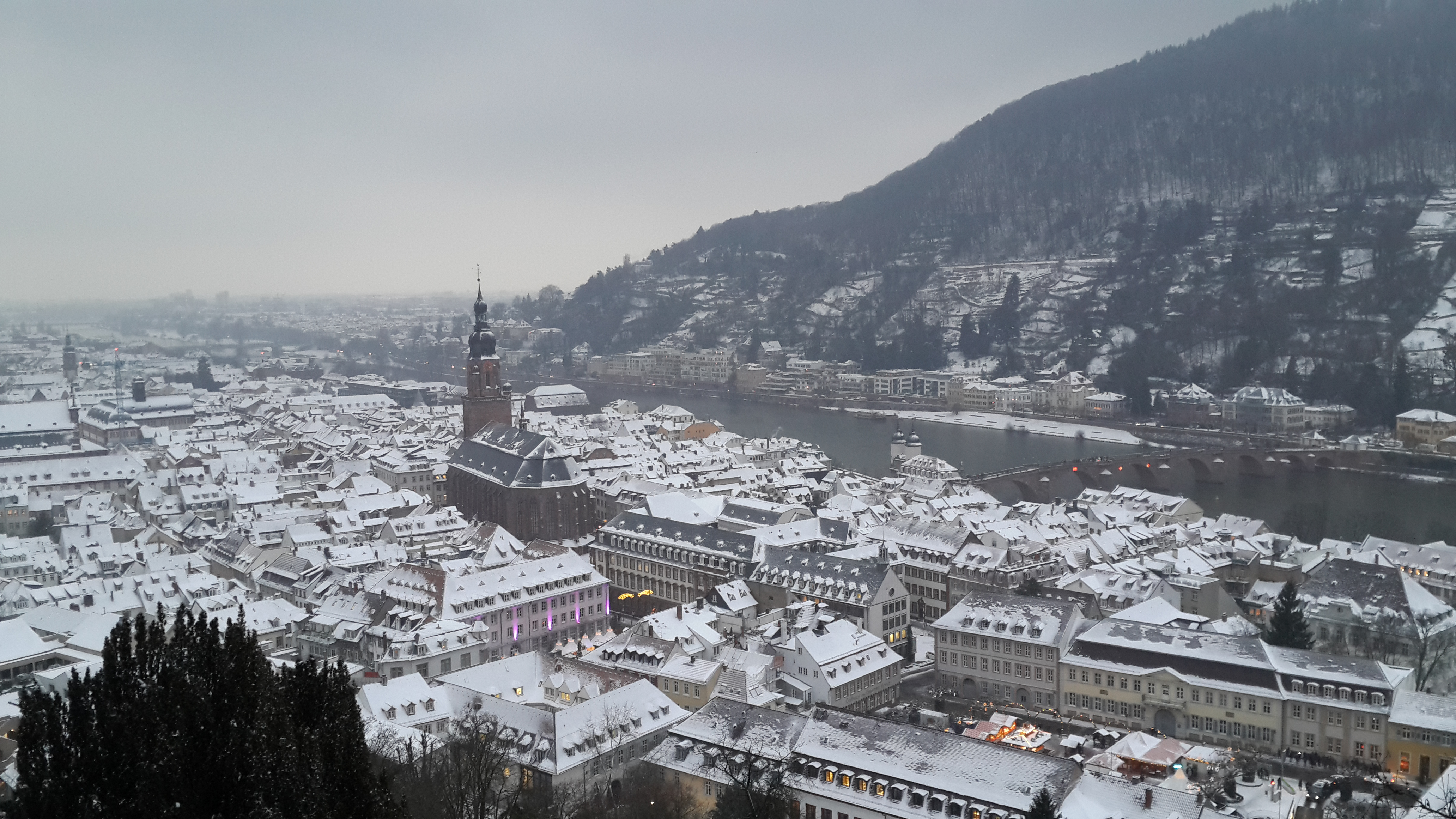 Heidelberg during winter.